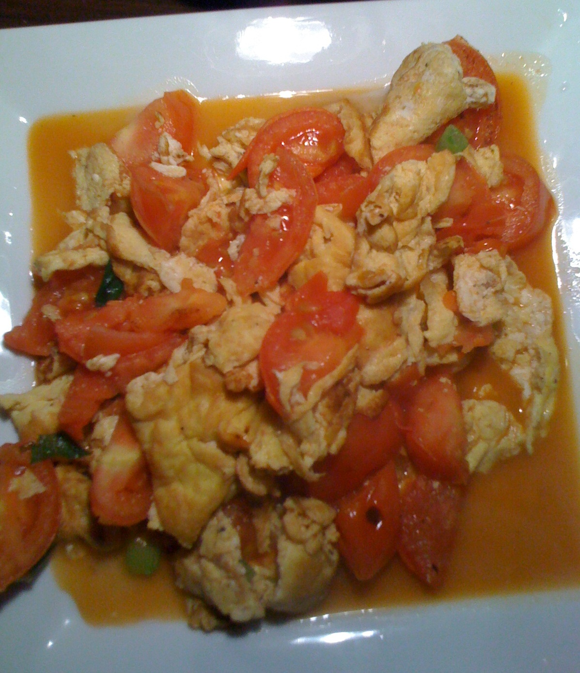 Chinese style stir-fried tomato and scrambled egg